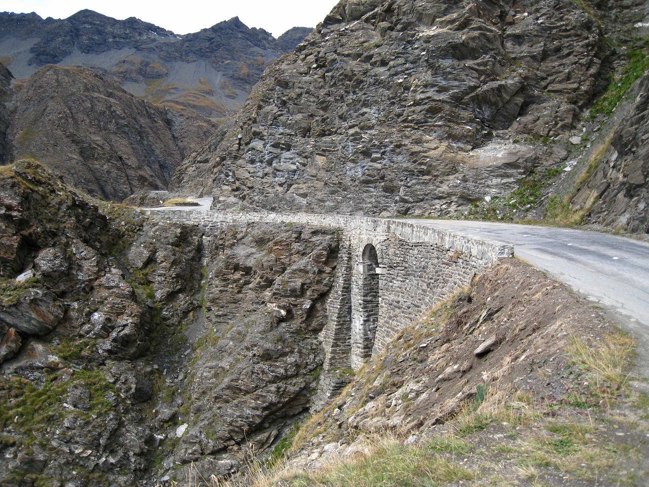 Road between Bonneval-sur-Arc to Col de l'Iseran.